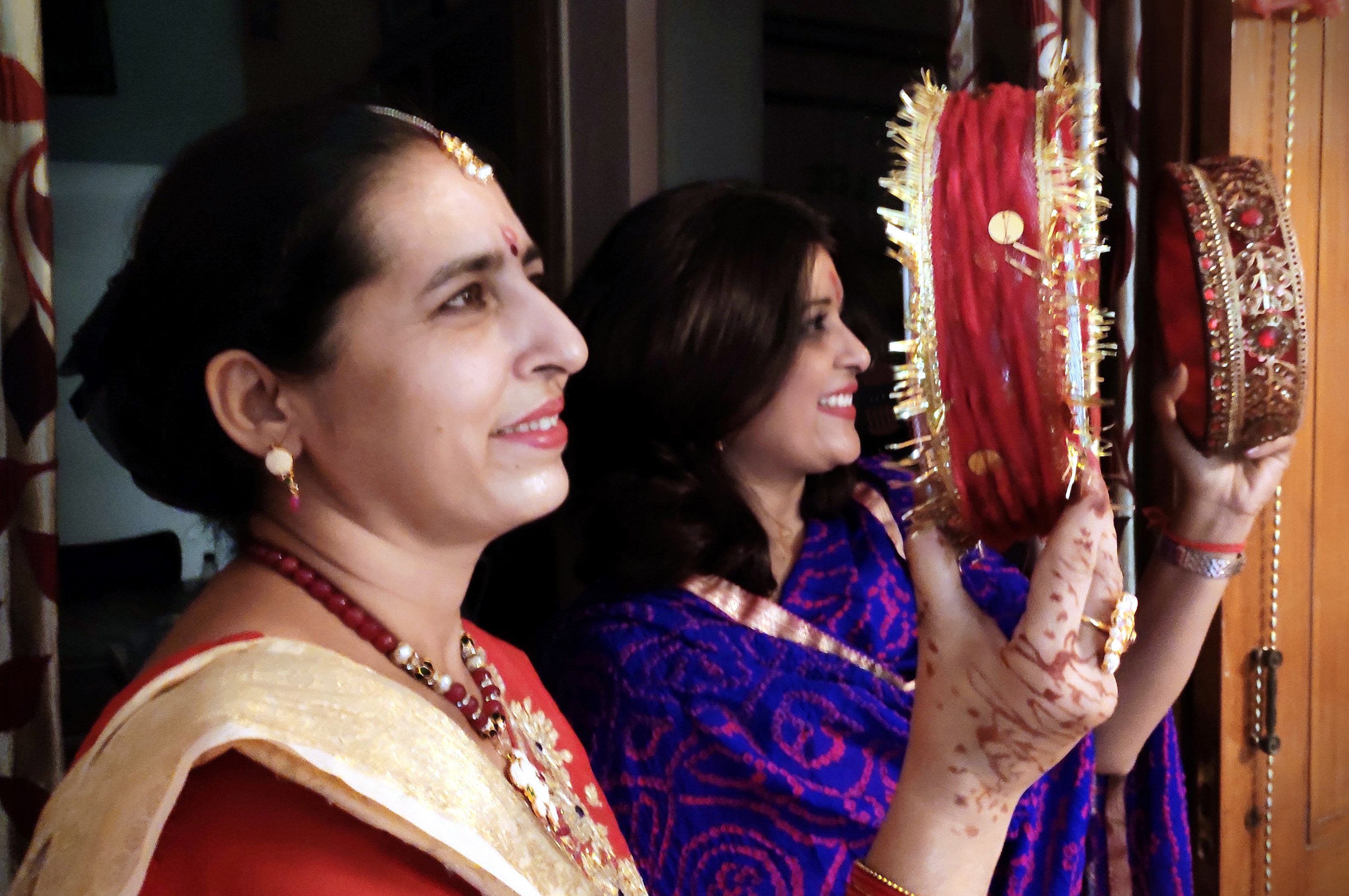 After a day long fasting of Karva Chauth, suhagins (married women) viewing the moon through the sieve. Towards the wishes of long and healthy life of their beloved husband, women used to keep the entire day fast and prays as per their traditions. By the end of the day the fasting women conclude the ritual while having the first view of fresh moon. This ritual is a part of their annual tradition among hindu married women.